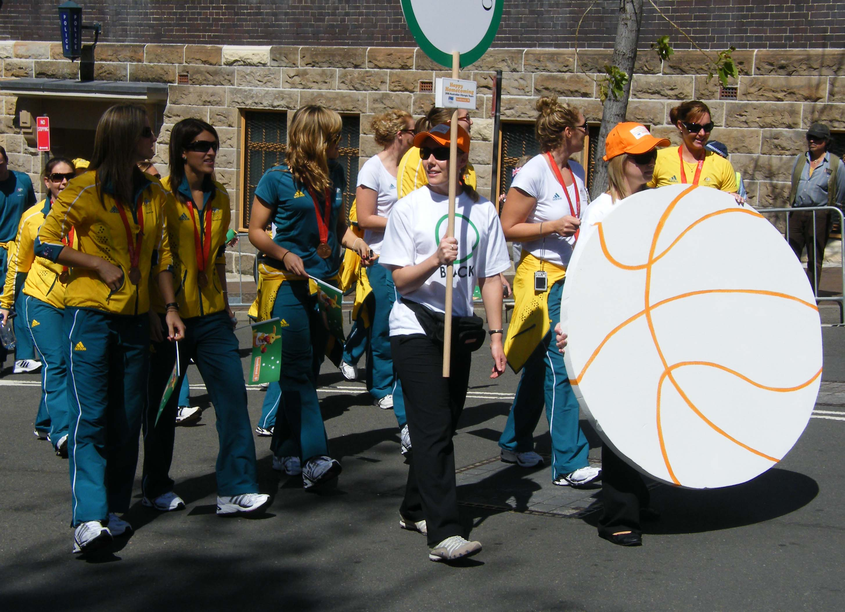 Parade of Olympians - Sydney 2008 - Women's Water Polo team